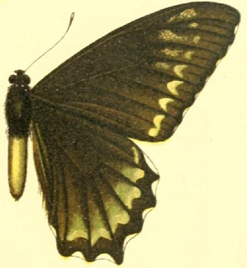 Madyes Swallowtail, male, upperwing